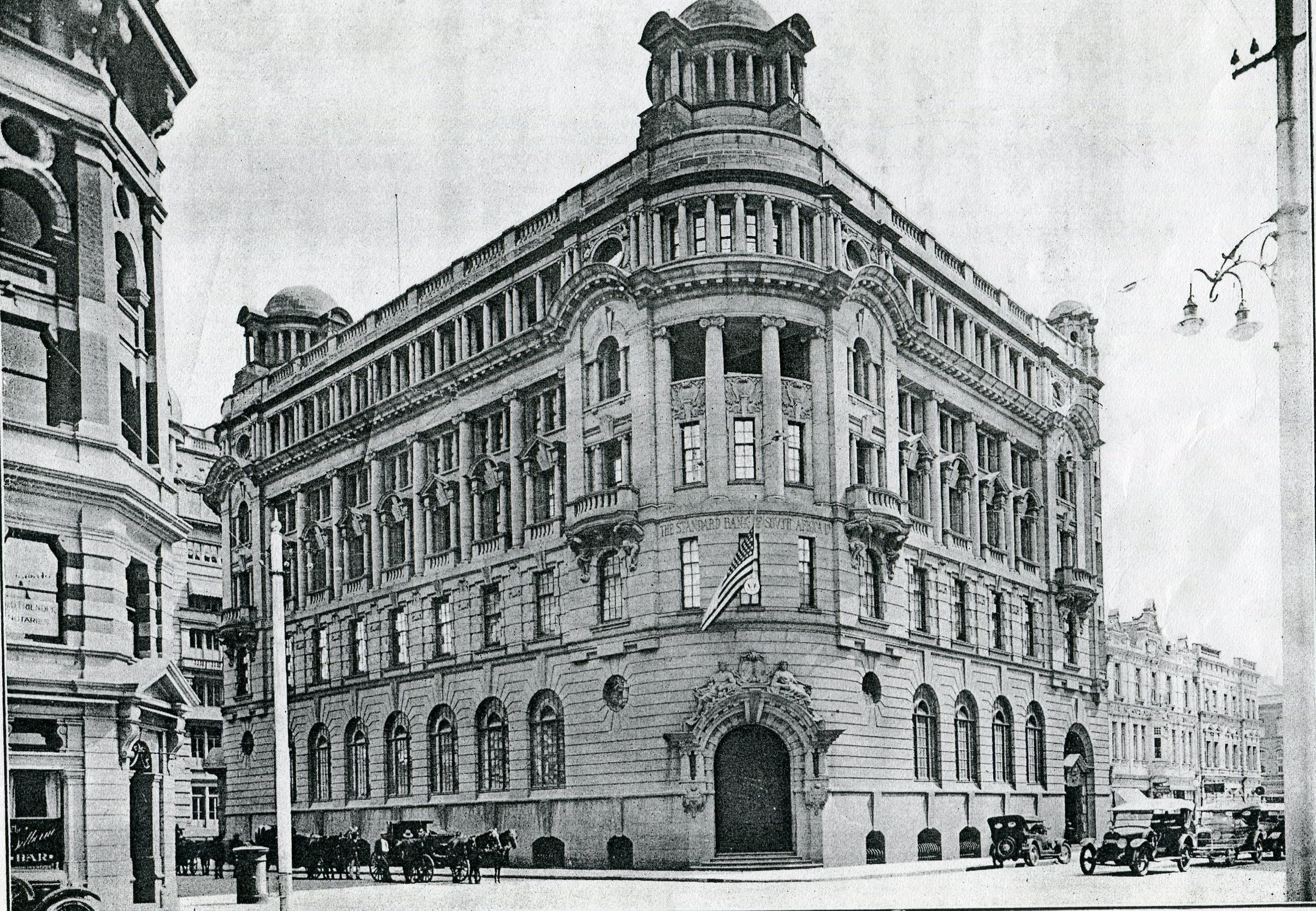 This is the Standard Bank Building in the city of Johannesburg, Marshallstown taken in the year 1924. It is part of the Joburgpedia and the Johannesburg Heritage Foundation project where archived documents and pictures of the city of Johannesburg are being digitized